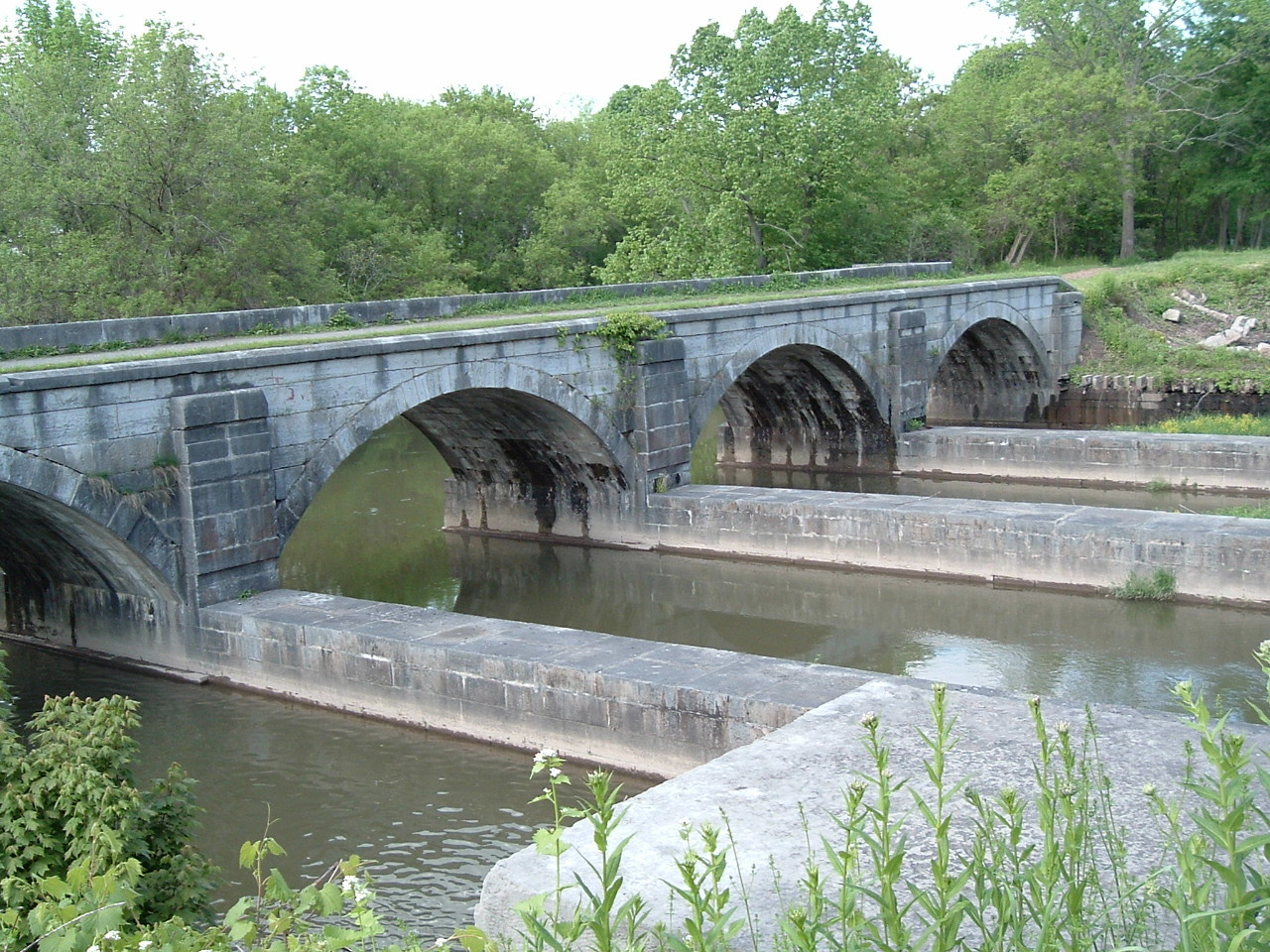 This photograph was taken by Wikipedia member Ebedgert.